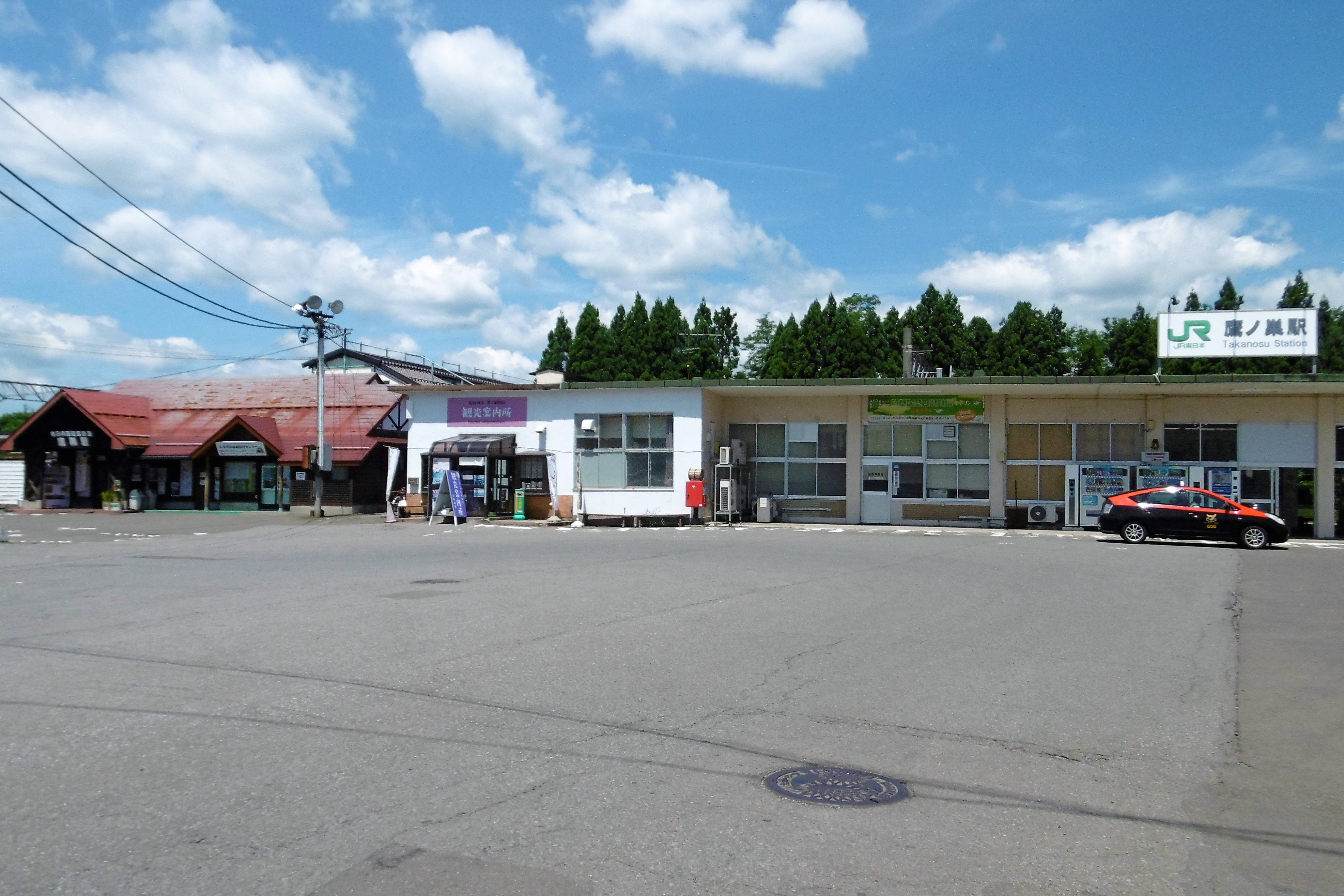 Takanosu Station in Akita Prefecture, Japan